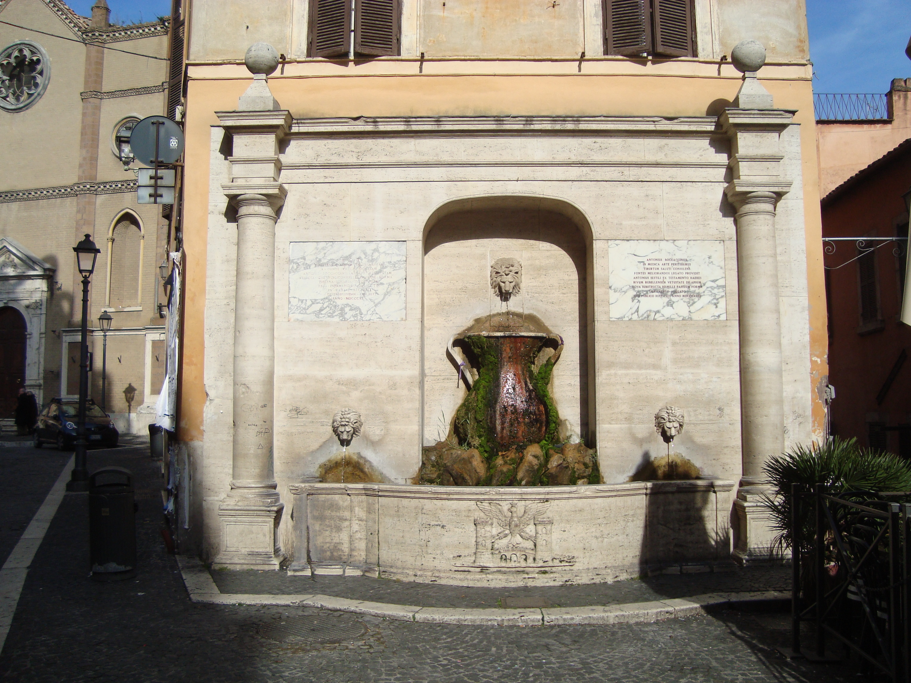 The Fountain Boccaccinus in Tivoli built in 1818